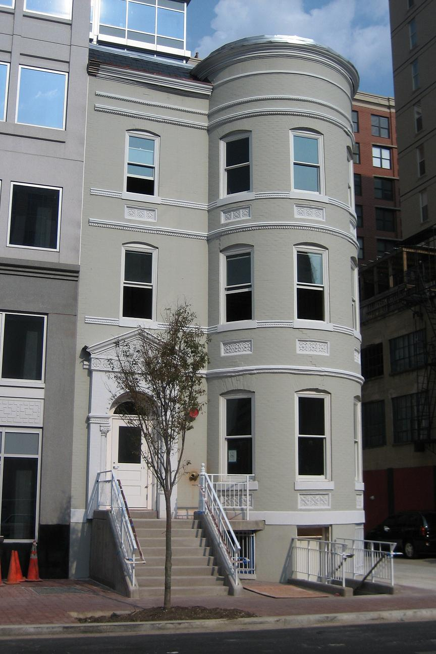 Hockemeyer Hall Front View